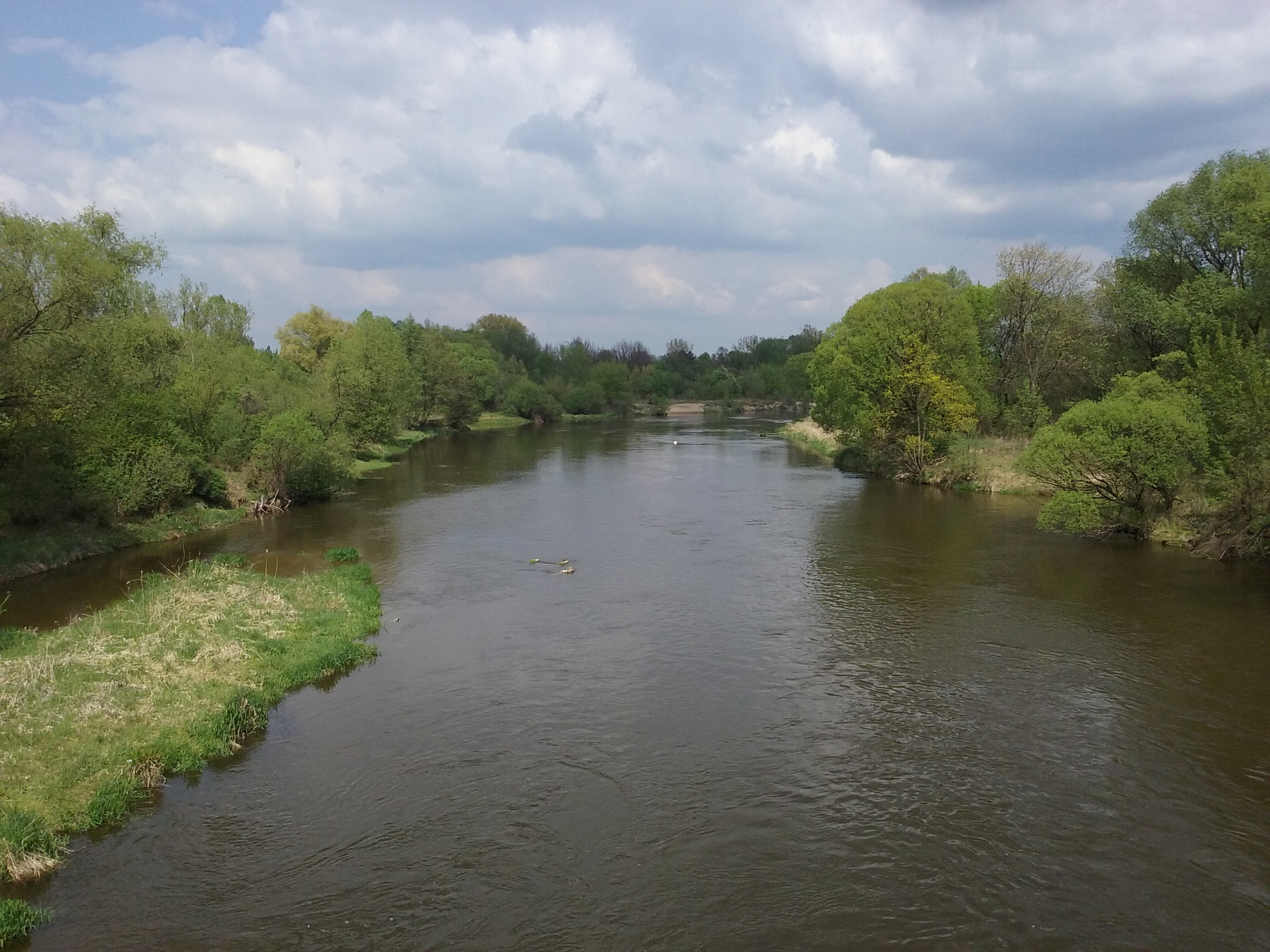 Pilica River in Tomaszów Mazowiecki (Białobrzeska Street)